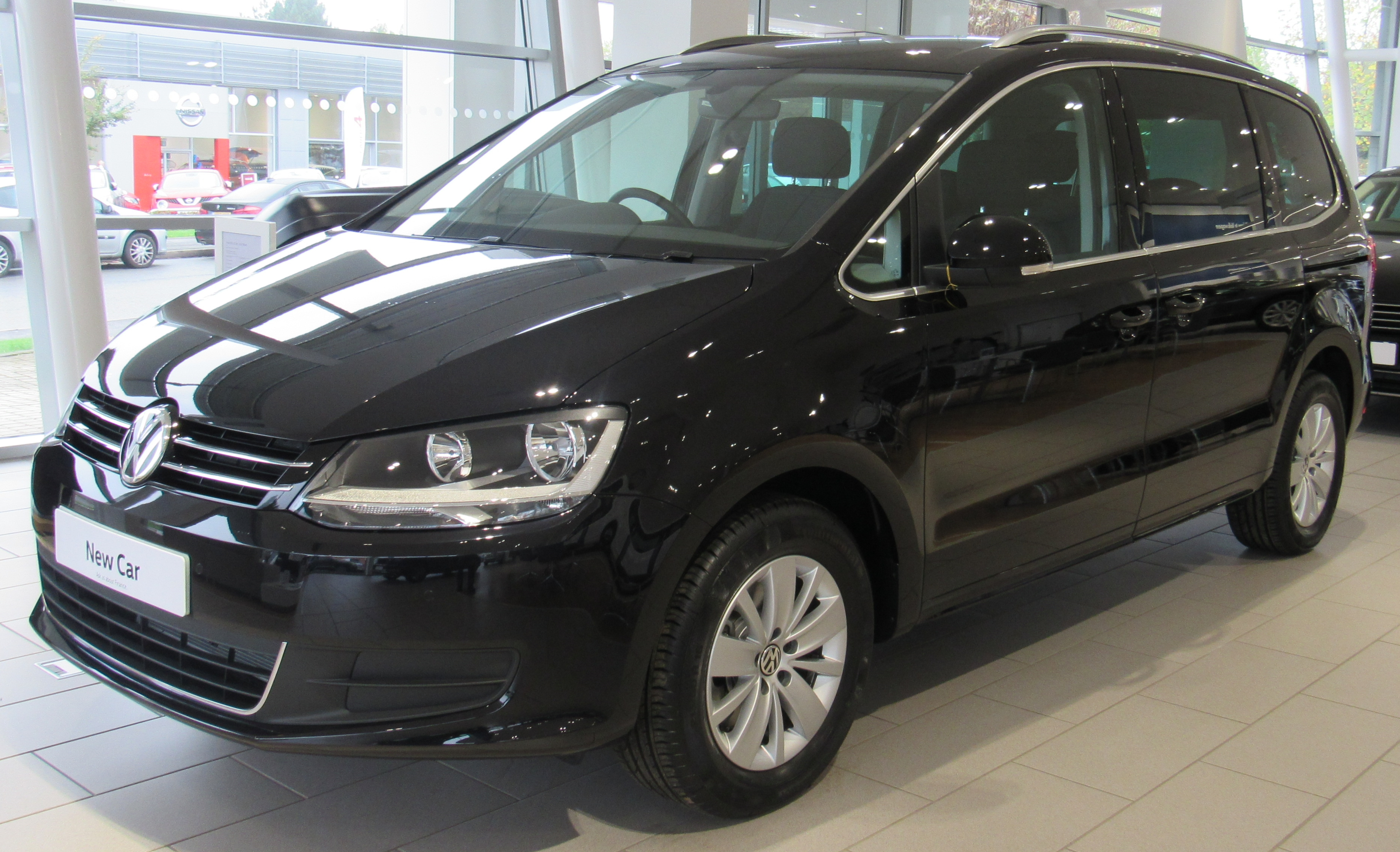 2017 Volkswagen Sharan SE TDi 2.0 Front Taken in Listers Volkswagen, Leamington Spa